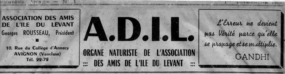 Heading of the first issue of the periodical published by the ADIL.